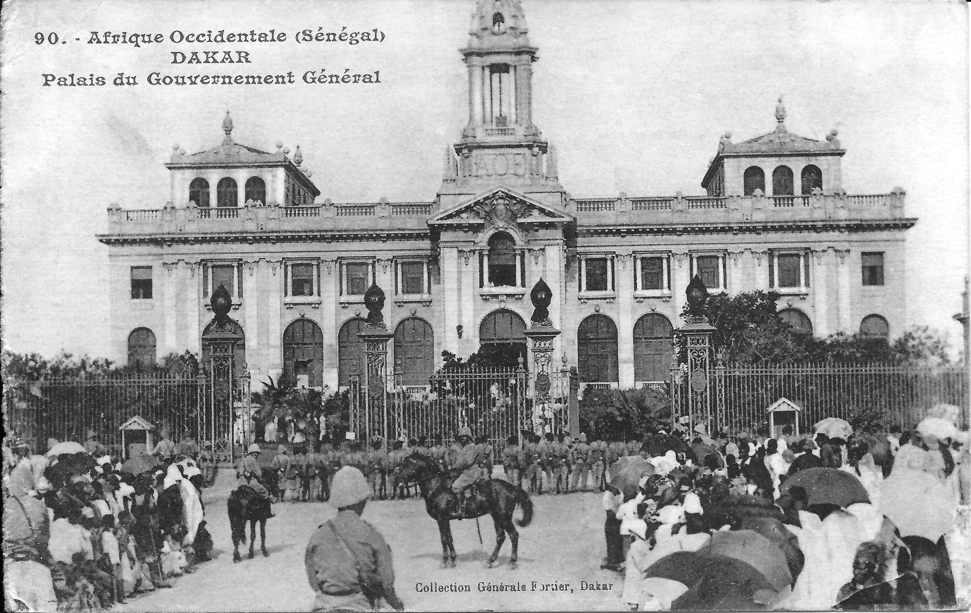 The French colonial government palace in Dakar. Is rebuilt as presidential palace.